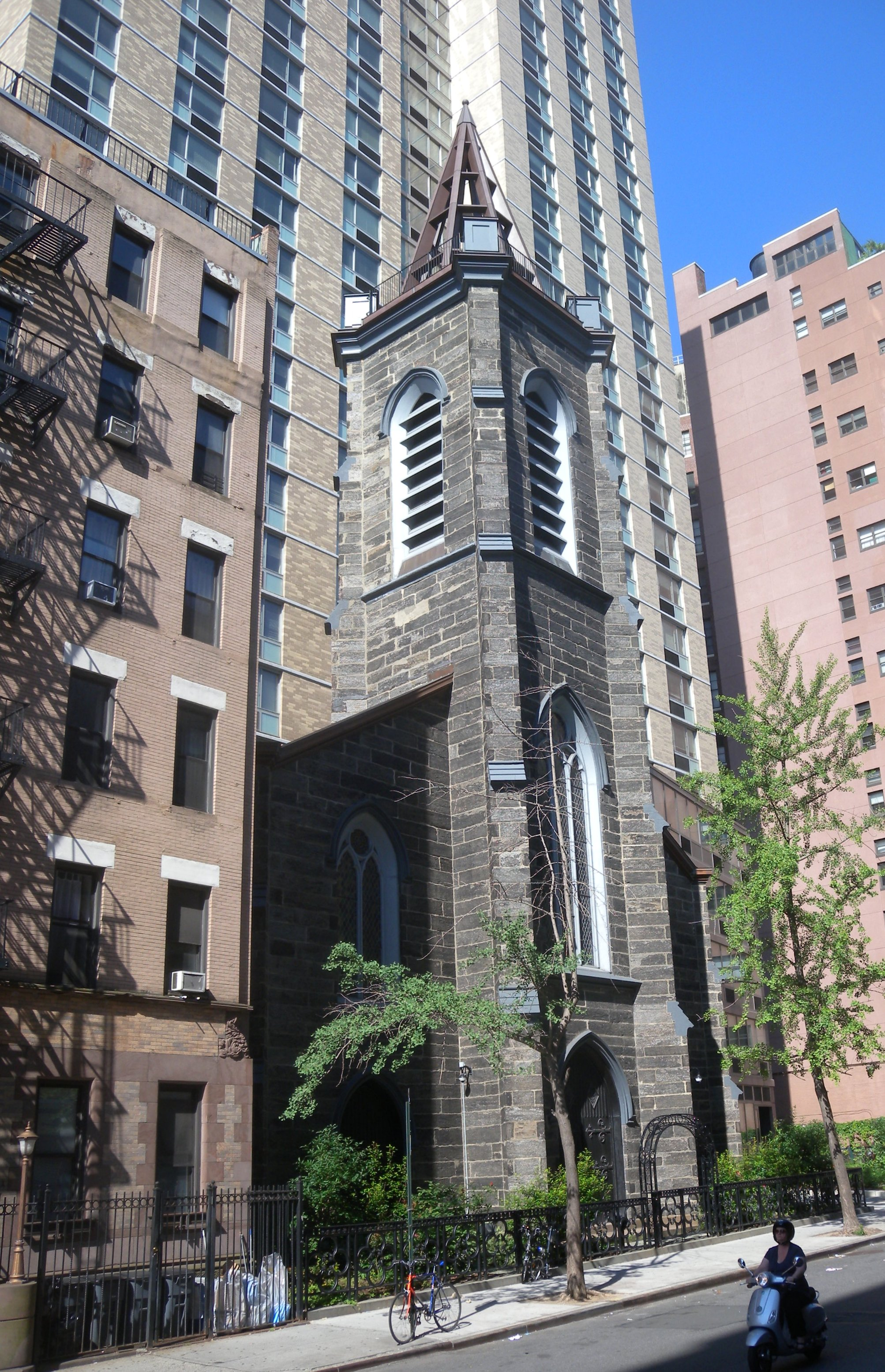 Looking west across 12th Street at former St Ann's Church, now entry hall for dormitory, on a sunny morning.